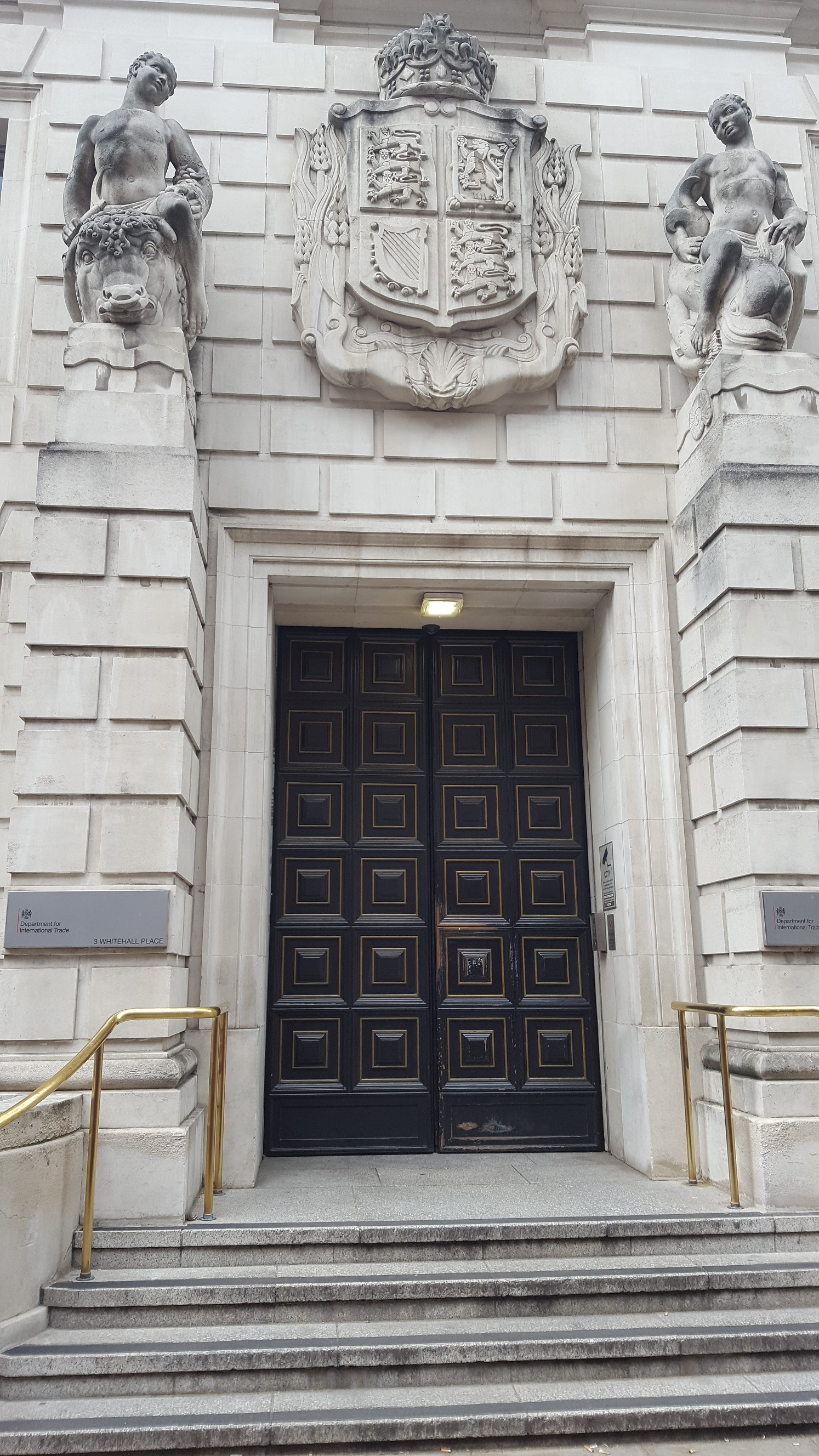 Prior to the creation of this government department by Teresa May from the Department for Business, Innovation and Skills this building housed the Department of the Environment and Energy